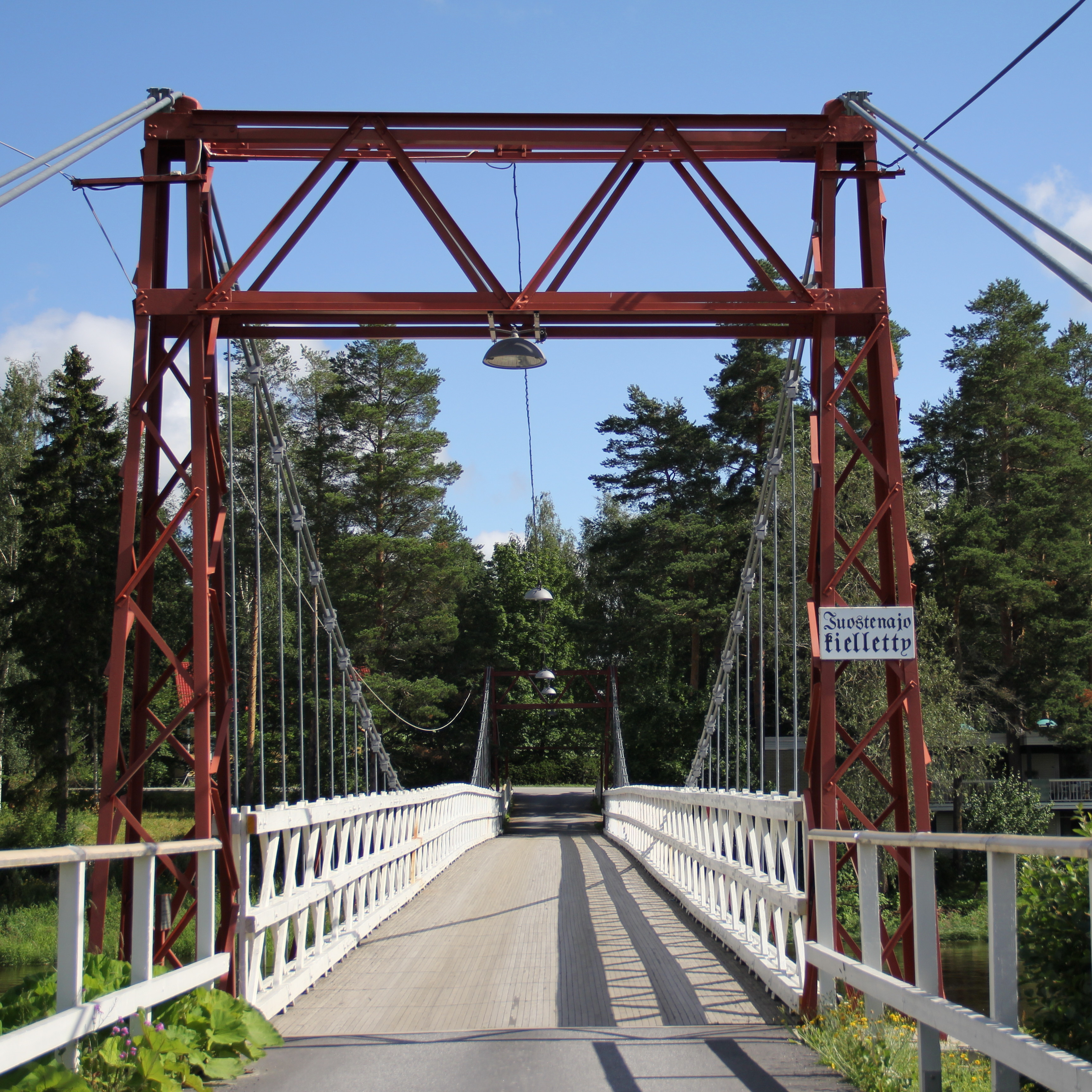 Perttilä suspension bridge, Isokyrö, Finland. - Bridge seen from southwest.